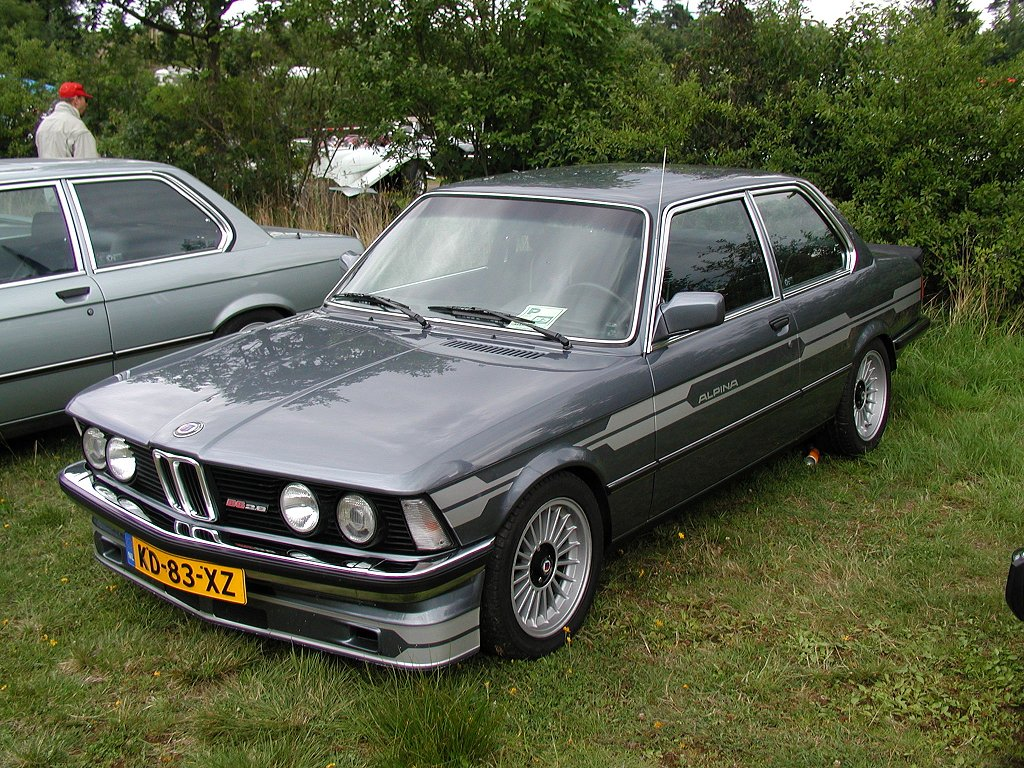 This is an BMW E21 Alpina version - B6